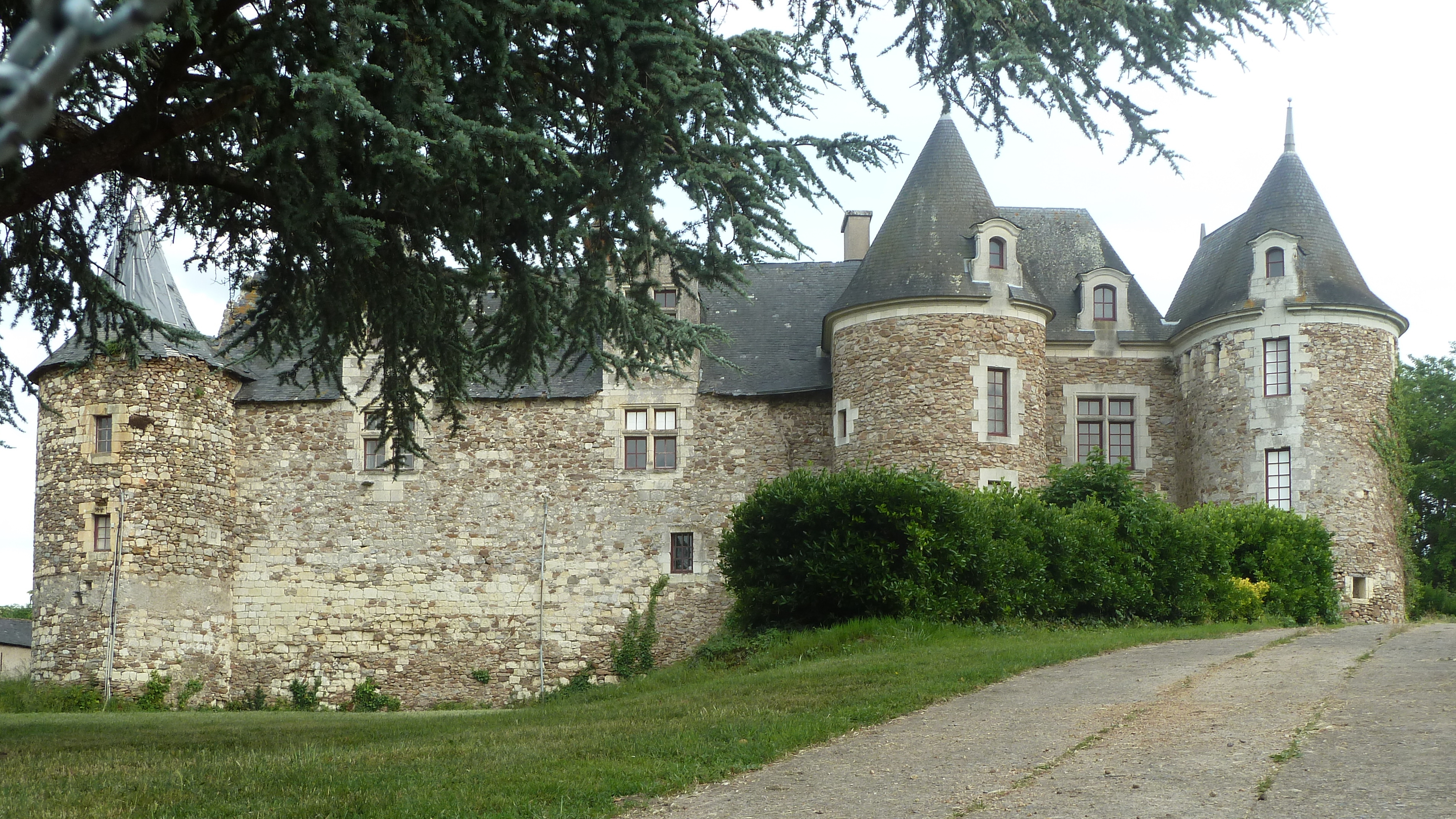 Castle of Blaison, Blaison-Gohier|, Maine-et-Loire, France. Built in the 12th century, rebuilt in the and 15th and 16th centuries, restored in 20th century. It was owned by Gilles de Rais, and burned four times by the English.